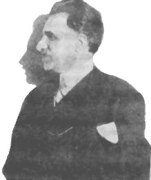 Cezar Papacostea (1886–July 6, 1936) was a Romanian classicist and translator.